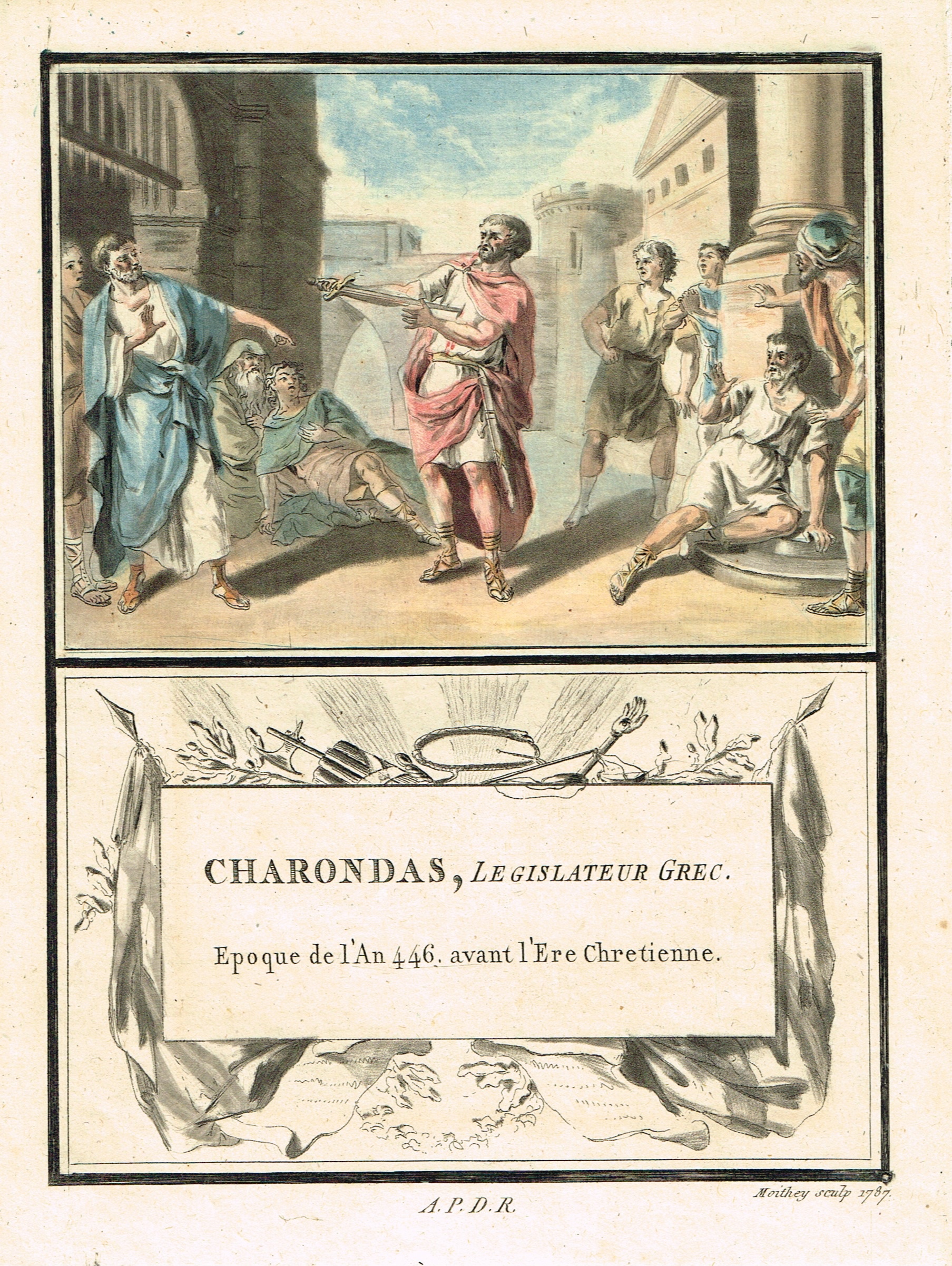 This image is an illustration printed in France in 1787 depicting the suicide of the Greek lawgiver Charondas.